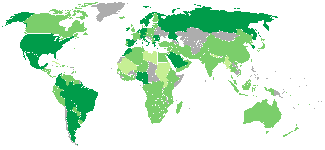 Qualification for the 1994 FIFA World Cup Country didn't participate Country withdrawed or entry didn't accepted by FIFA Country participated in the qualification tournament Country qualified to the finals